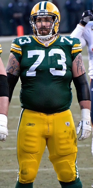 Lambeau Field - January 2, 2011. Photo by Mike Morbeck.